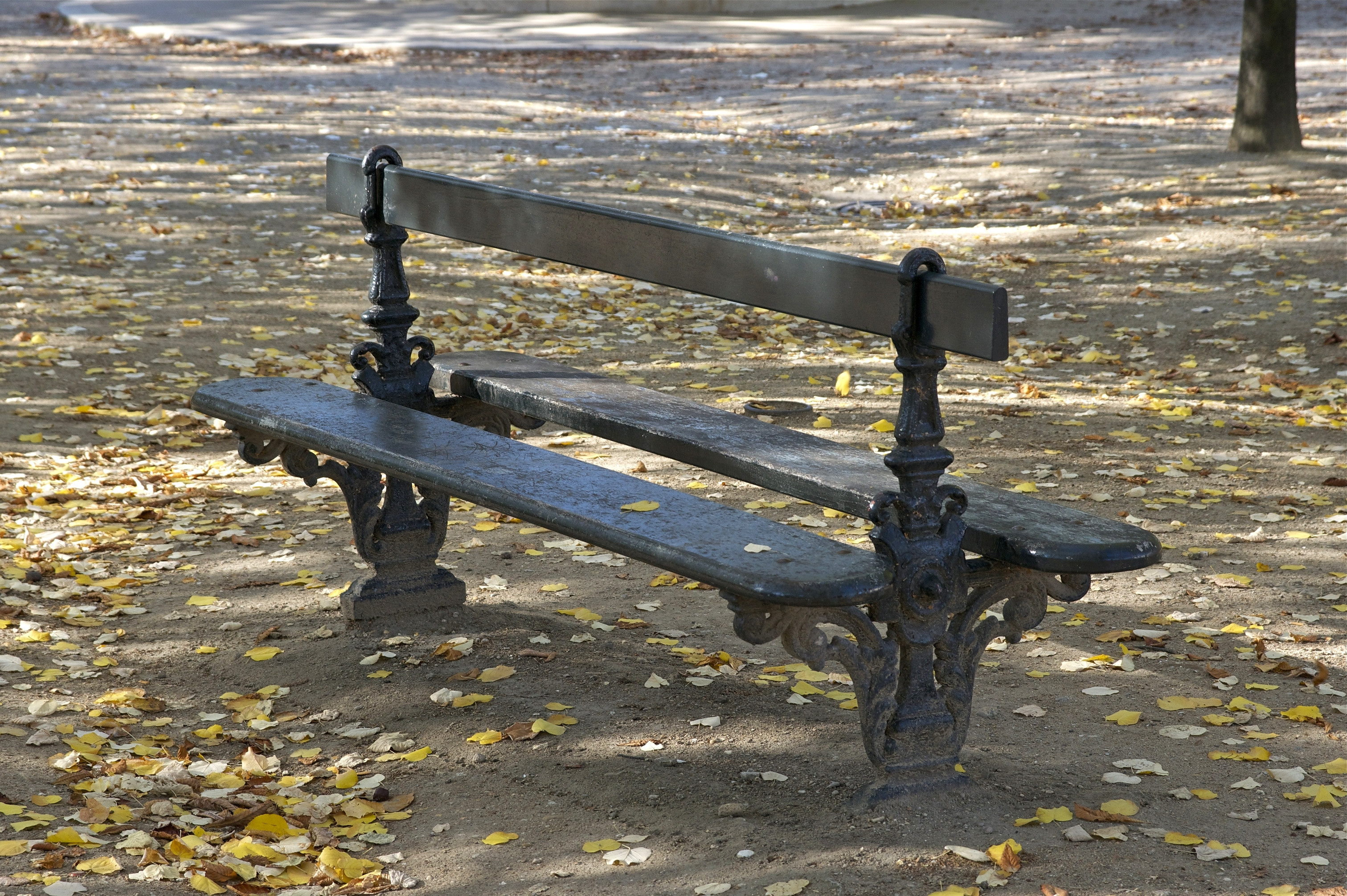 A bench. Jardin du Luxembourg, Paris.